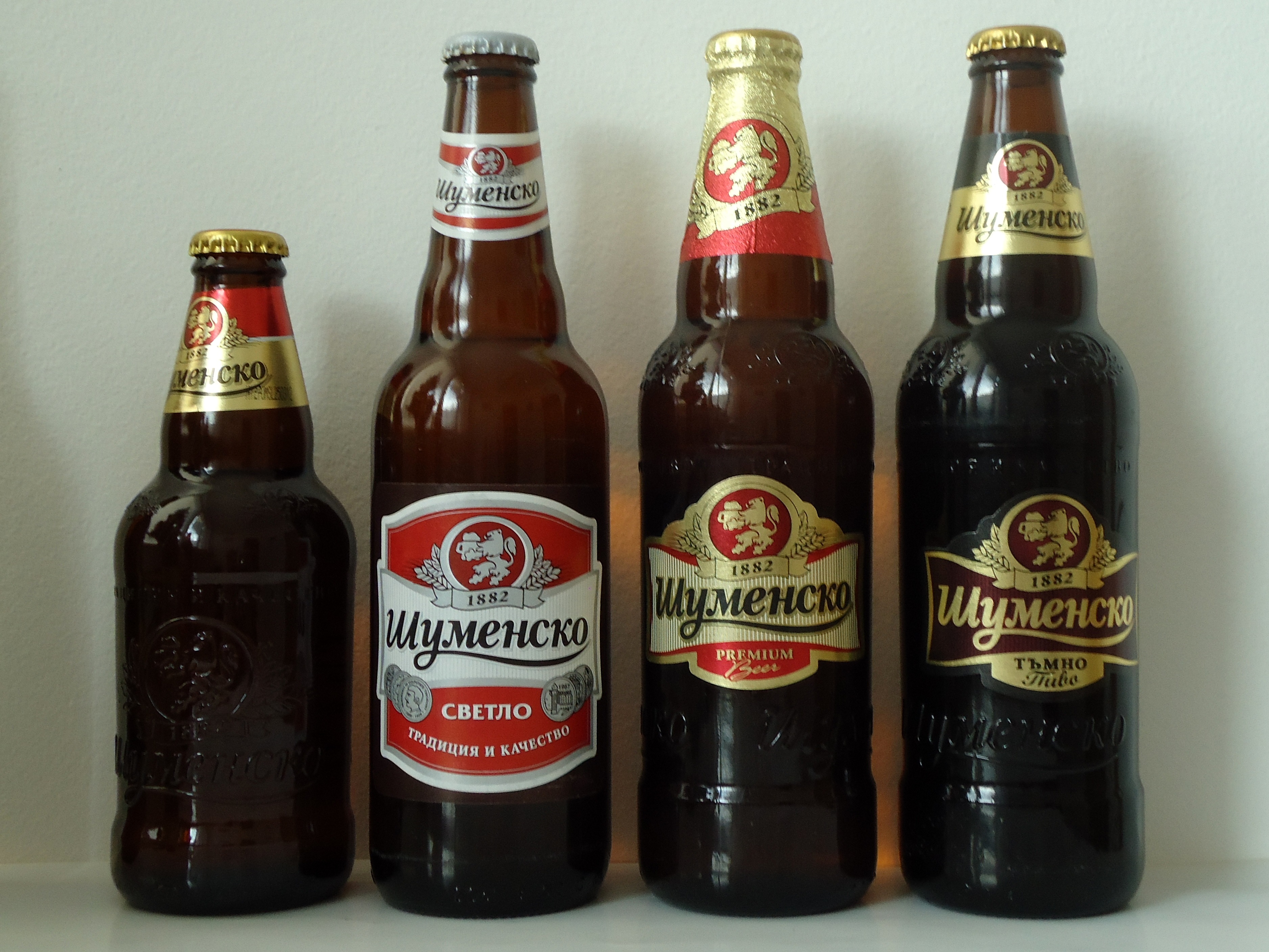 Shumensko 4 beers